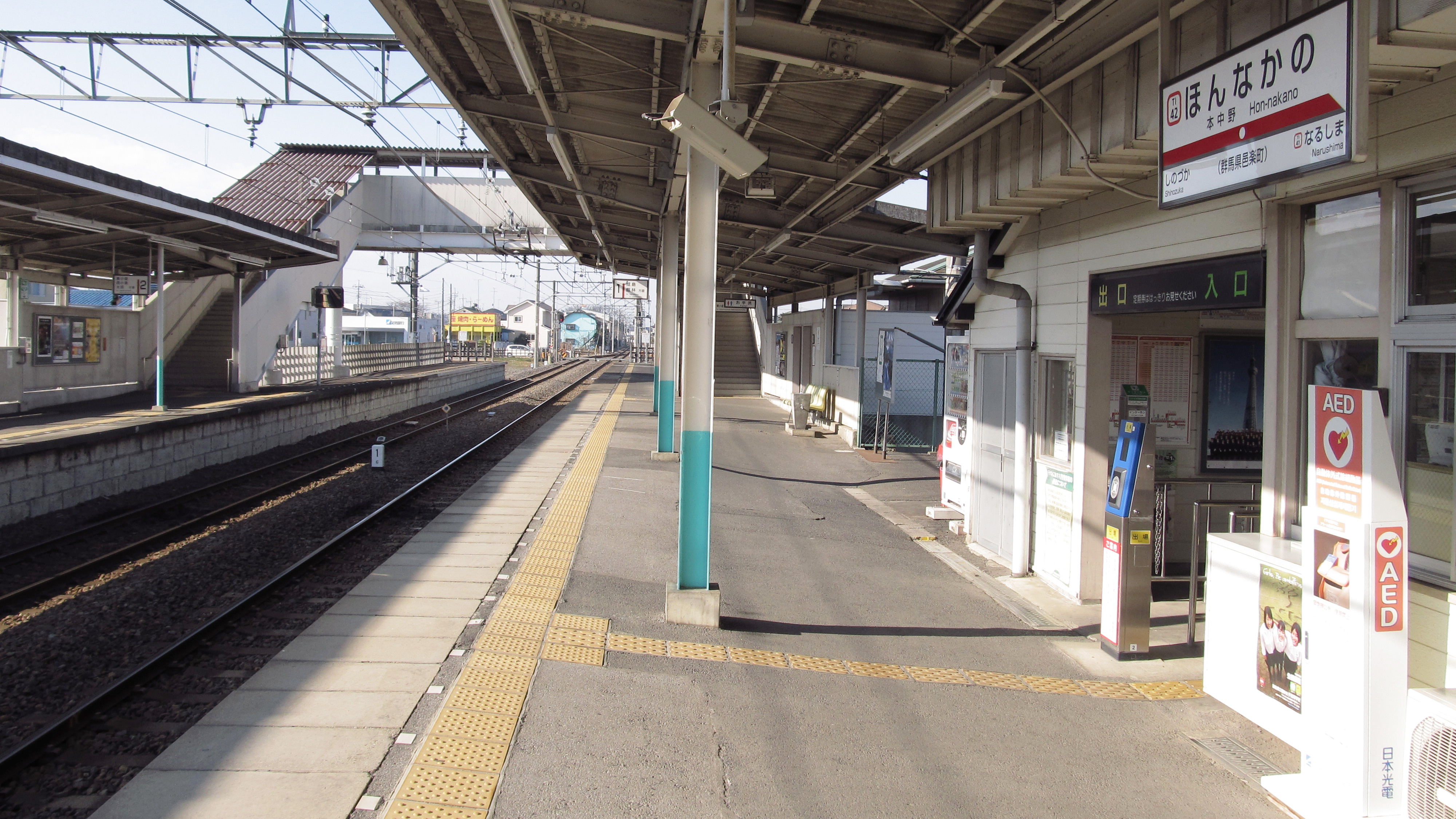 The platforms at Hon-Nakano Station on the Tobu Railway Koizumi Line in Ōra town, Gumma prefecture, Japan